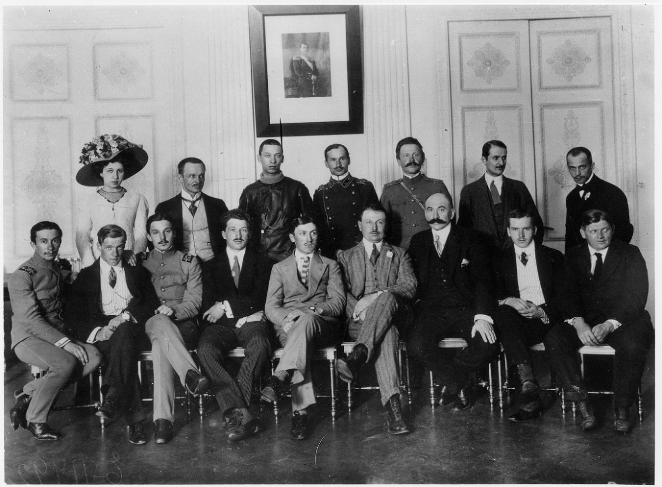 Participants and organizers of the first aviation flight in history from St.Petersburg to Moscow, July 1911. with Lidiya Zvereva (1890-1916). first Russian women aviator